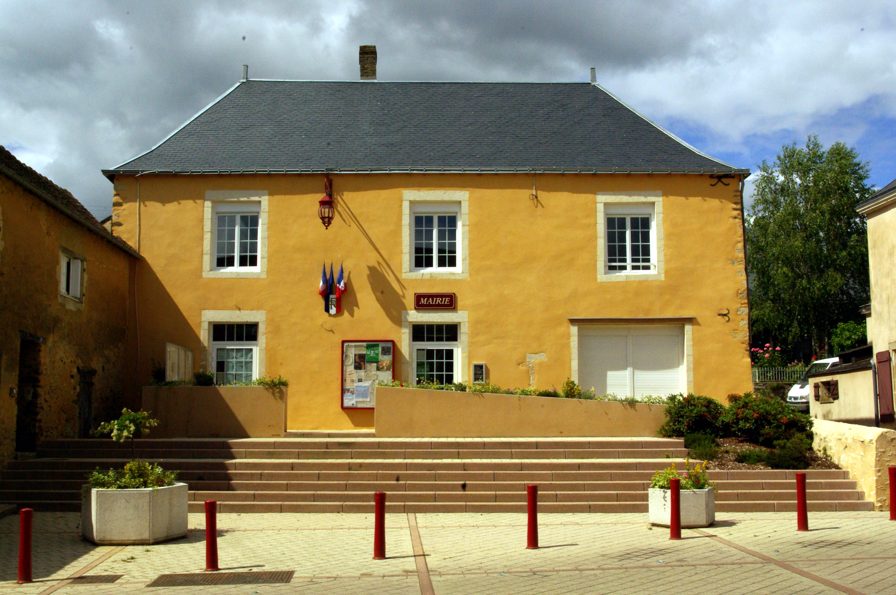 City Hall in Souligné-Flacé